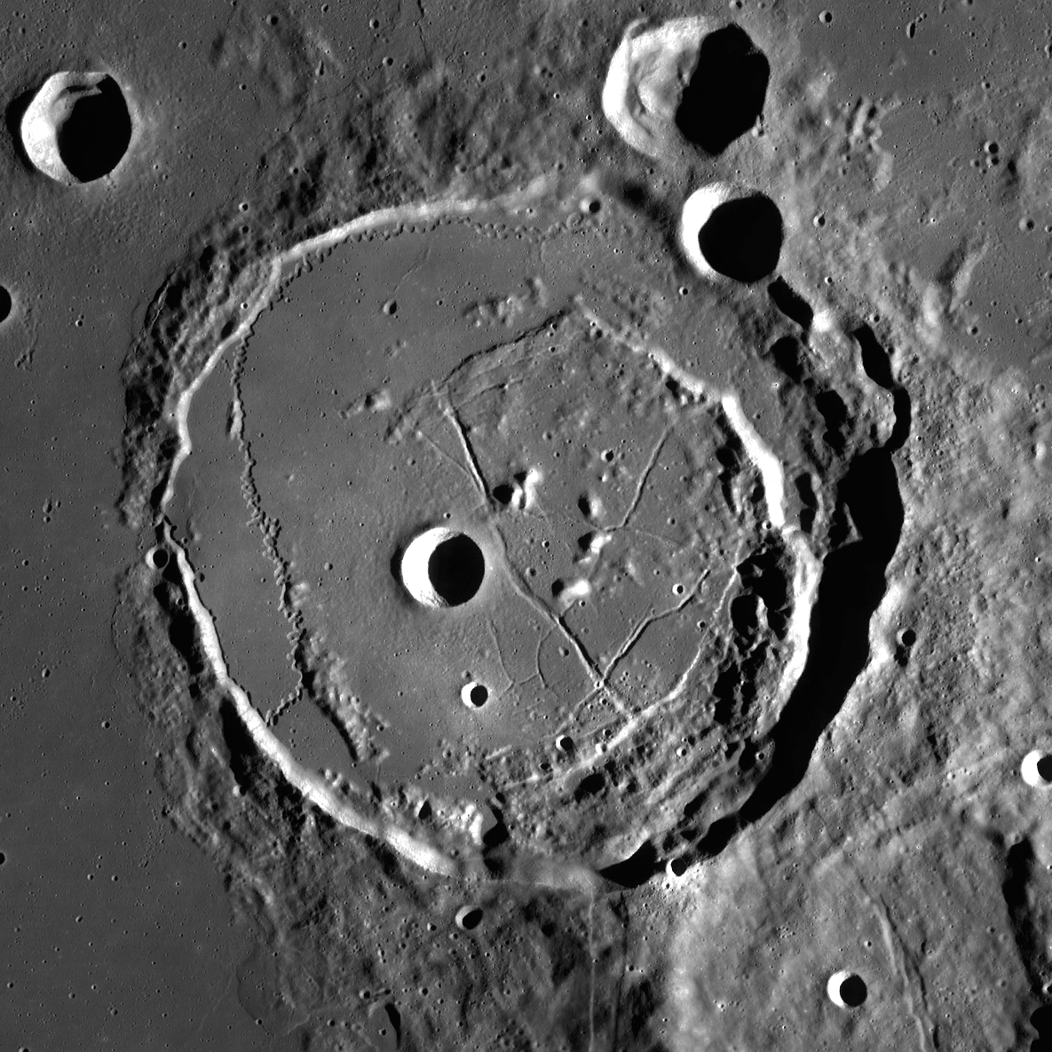 Crater Posidonius on the shore of Mare Serenitatis on the Moon. Mosaic of photos by Lunar Reconnaissance Orbiter, made with Wide Angle Camera. Size of the image is 140×140 km, north is up.